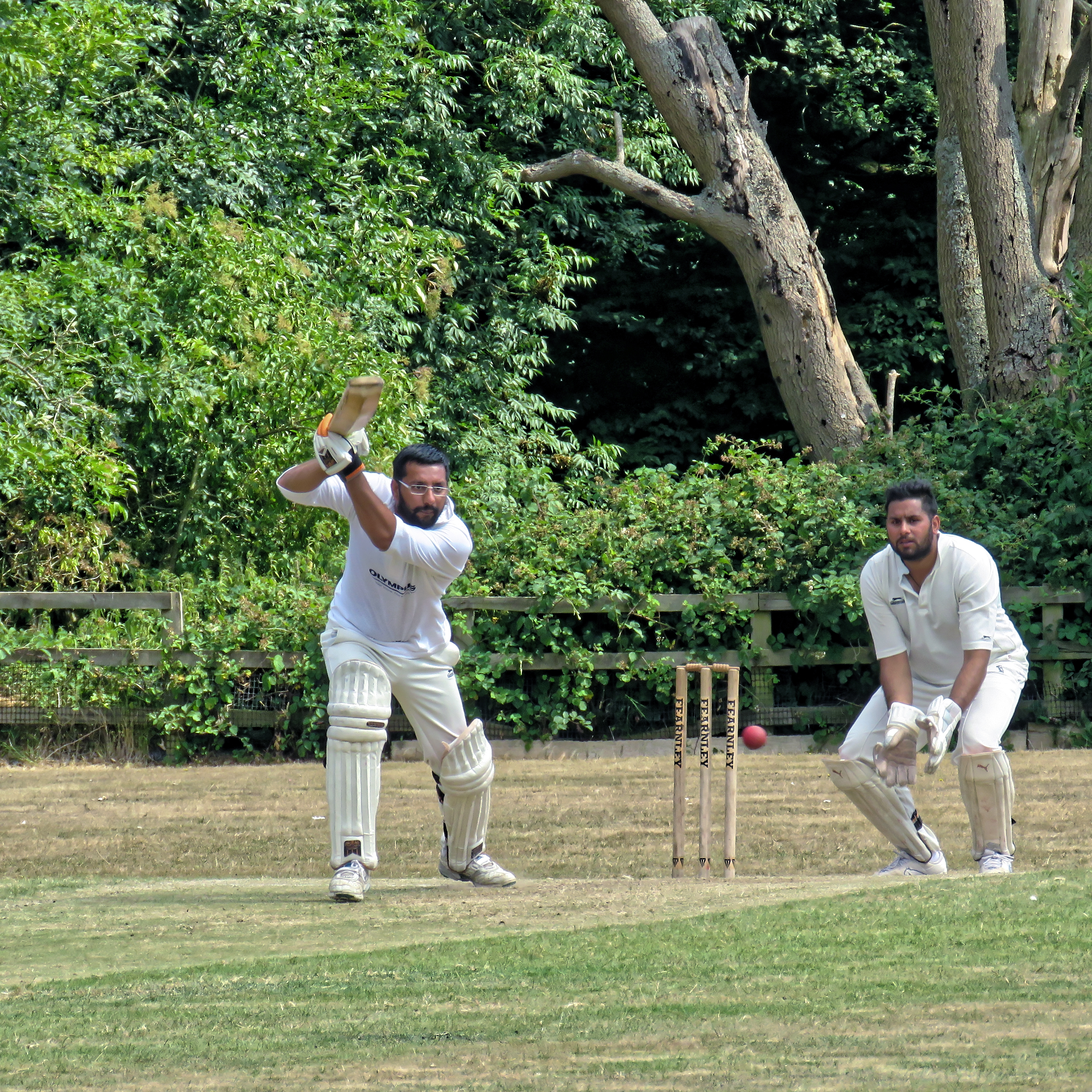 A public Sunday friendly match between Coopersale CC and Old Sectonians CC (Coopersale batting), at Coopersale, a village northeast from Epping, Essex, England. Coopersale Cricket Club, although previously running Saturday teams, today play only Sundays friendlies. Old Sectonians Cricket Club is a long-standing peripatetic club from Ilford, London. Camera: Canon PowerShot SX60 HSSoftware: File lens-corrected, optimized, perhaps cropped, with DxO PhotoLab, and likely further optimized with Adobe Photoshop CS2.